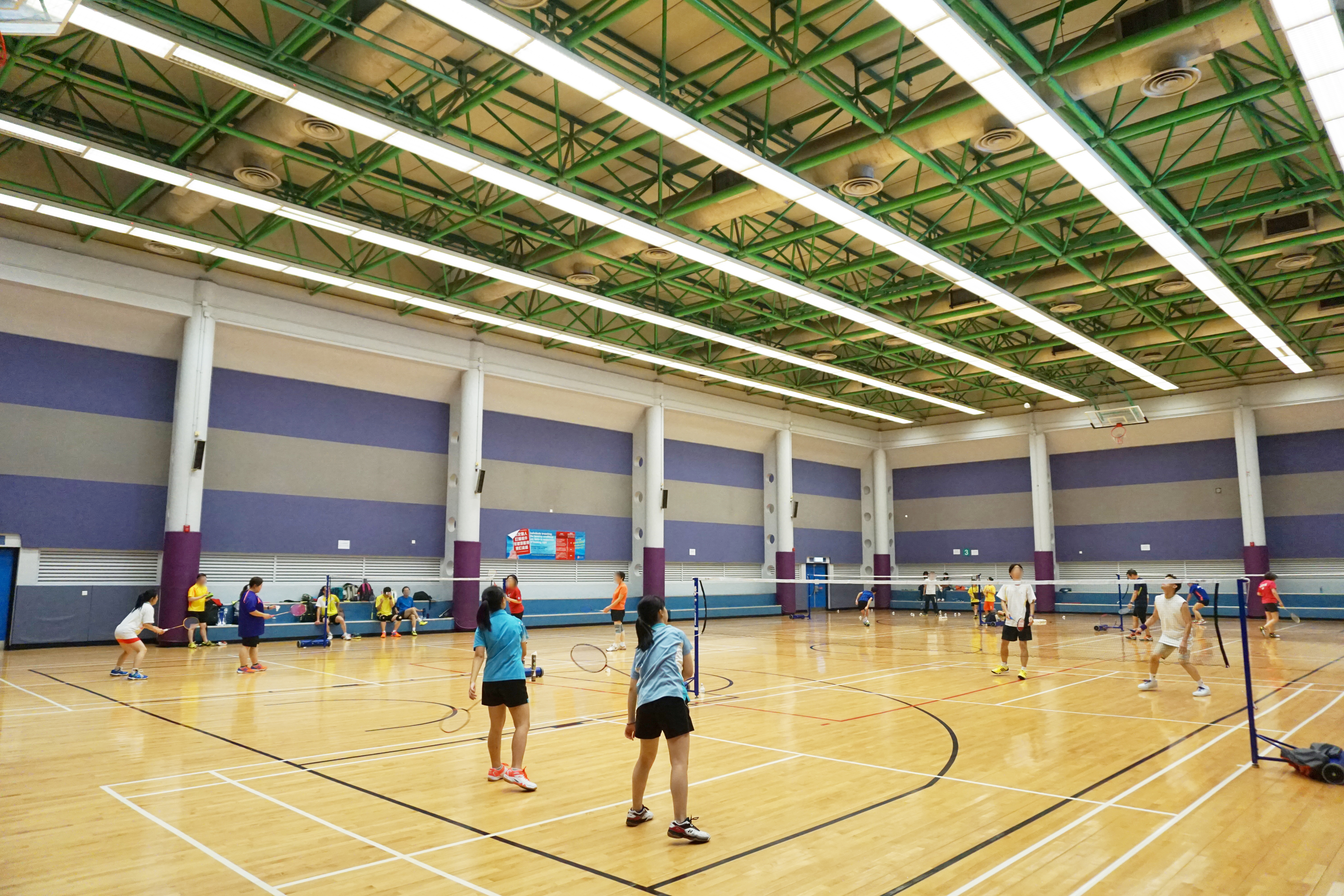 Chuk Yuen Sports Centre in Wong Tai Sin, Hong Kong.